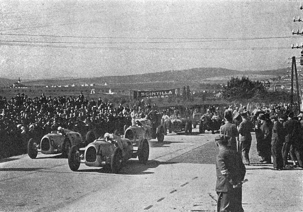 Start Grand Prix Brno, no. 4 Stuck, no. 6 Varzi, no. 8 Rosemeyer (1935)